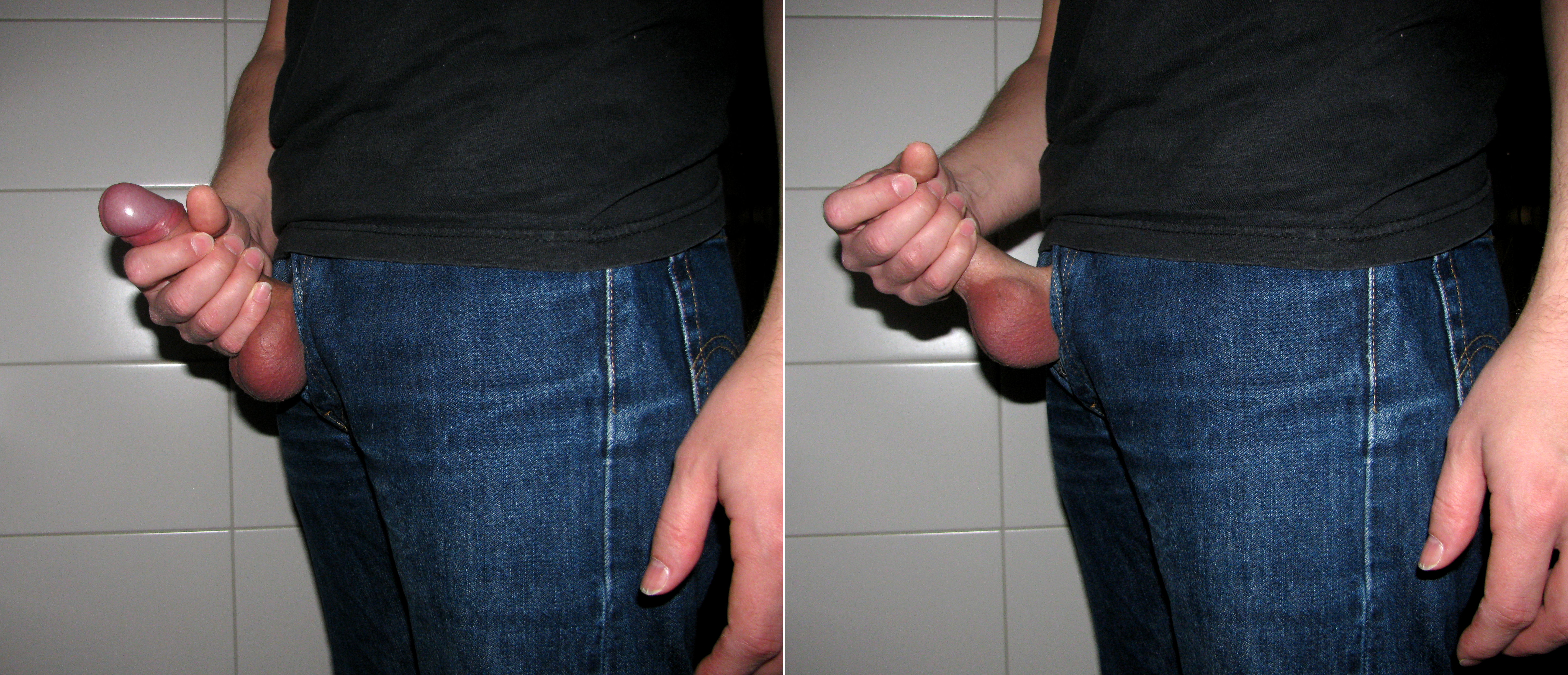 Side-view of a masturbating male (uncircumcised penis, age 34). The male is clothed, his penis and testicles have been taken out of the button-fly opening of the jeans.